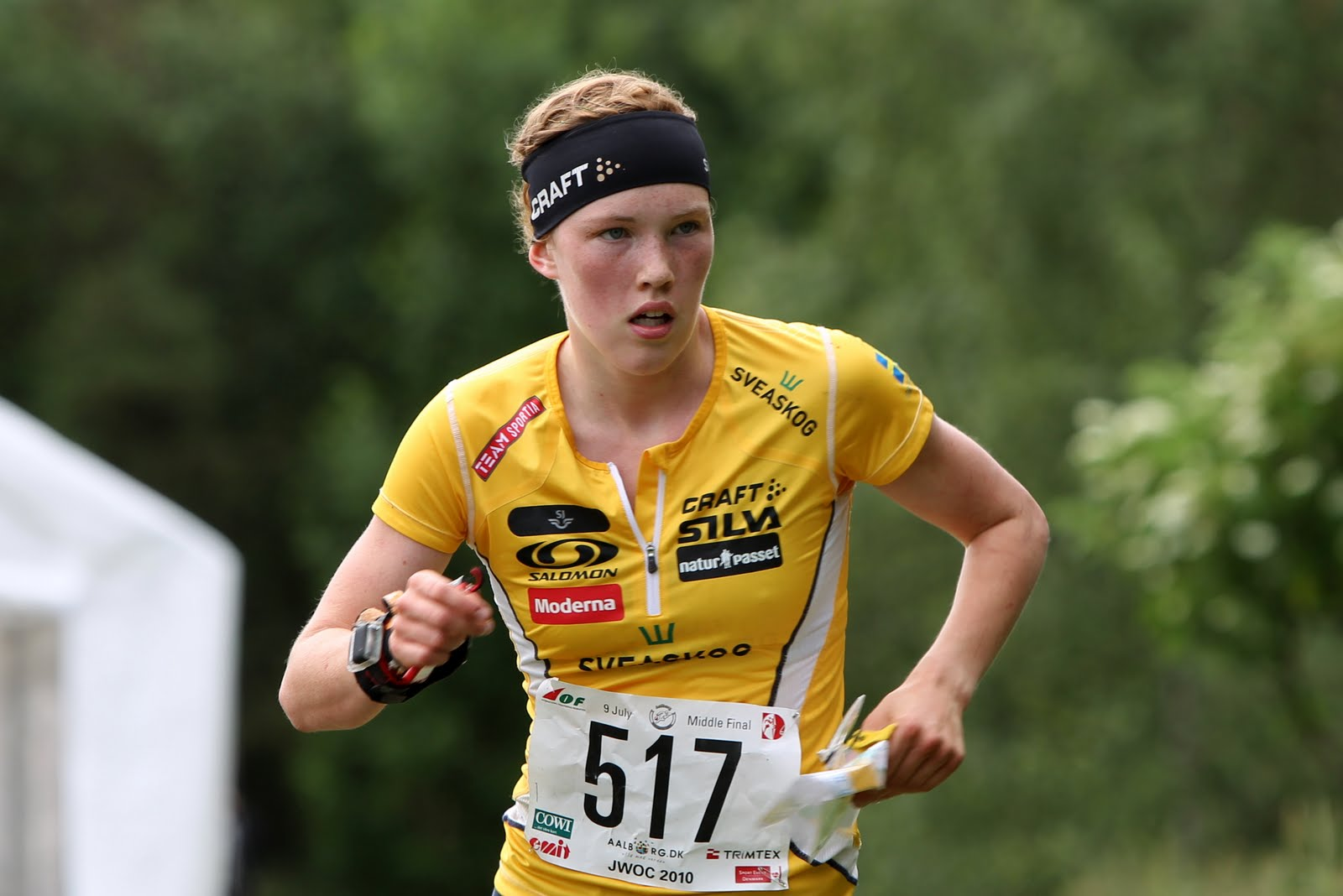 Tove Alexandersson (SWE) at JWOC 2010